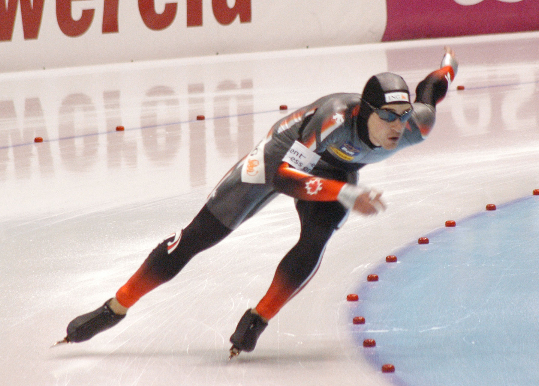 Denny Morrison (CAN) at a World Cup speedskating in Heerenveen (NED)